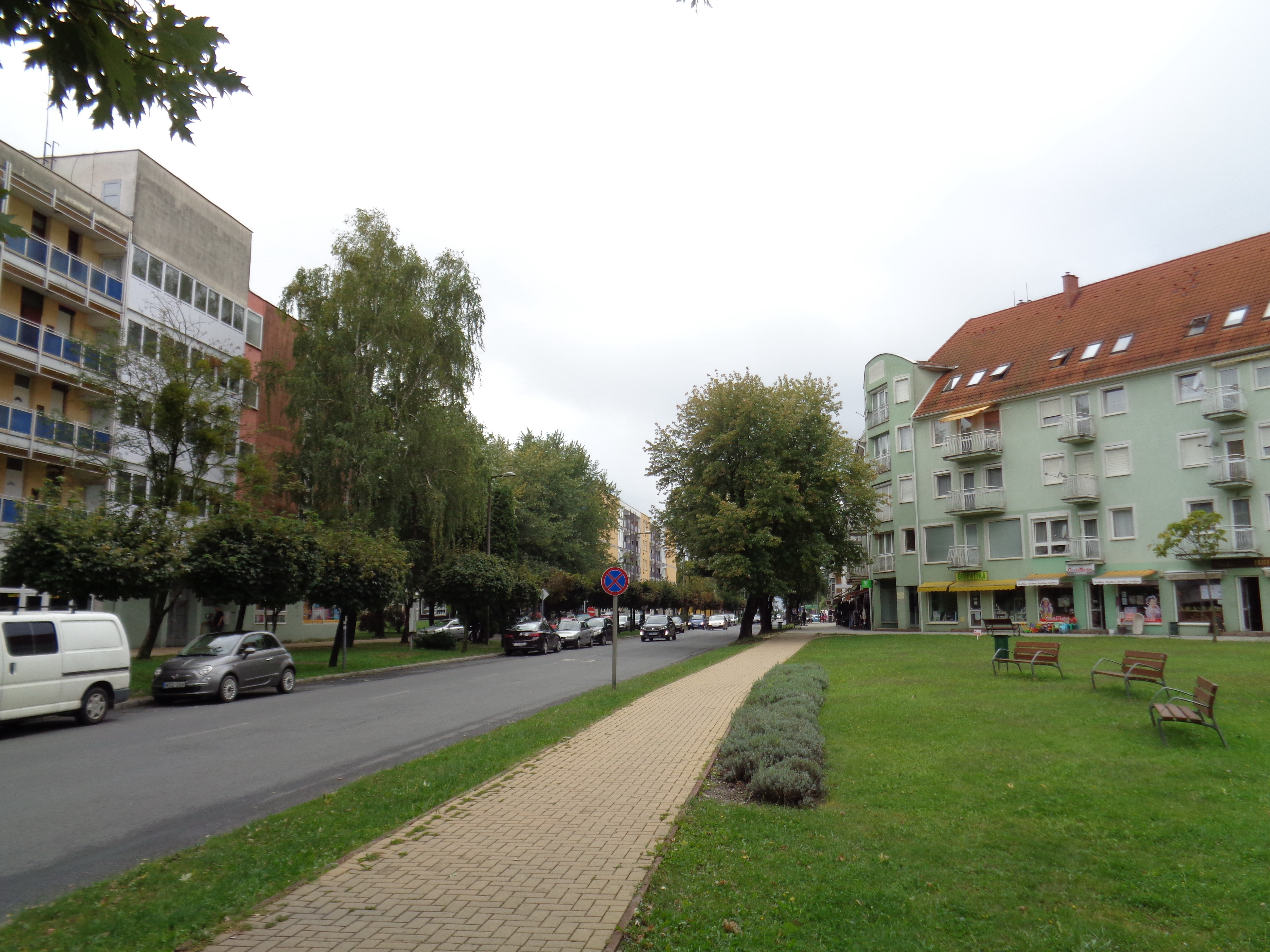 Lenti, Hungary - town centre. Kossuth út 3 on right